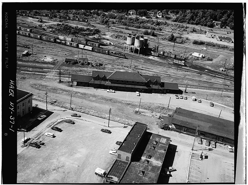 The Salamanca Erie Railroad station and yard seen from above.